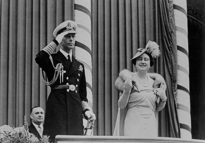 King George VI and Queen Elizabeth acknowledge the crowds at Toronto City Hall during the 1939 Royal Tour of Canada. Toronto, Canada.